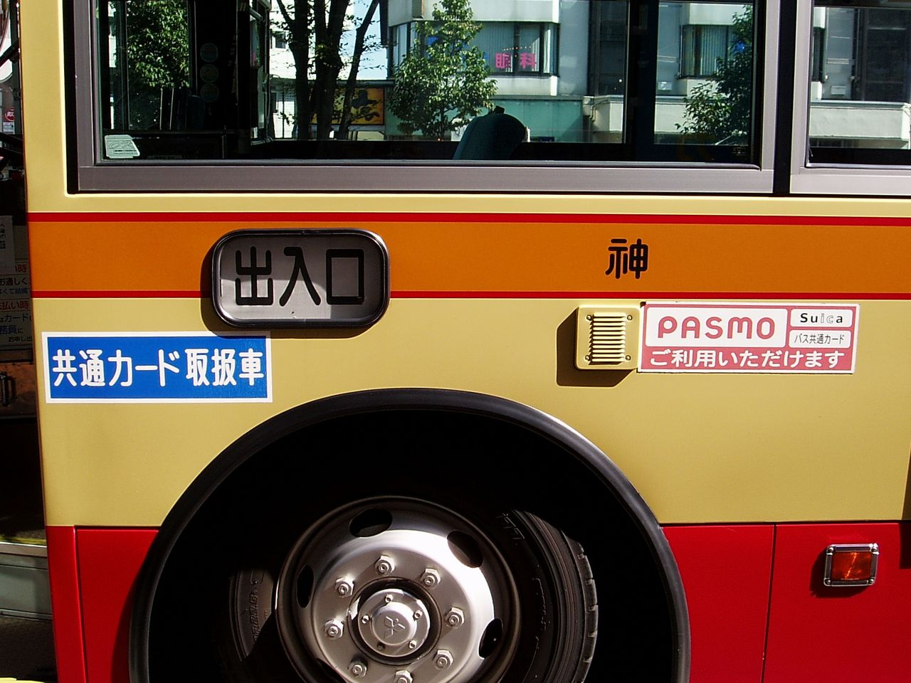 The "Kyotsu Card handling vehicle" and the sticker of "PASMO" are stuck on thick 105 private cars of Kanagawa Chuo Kotsu.